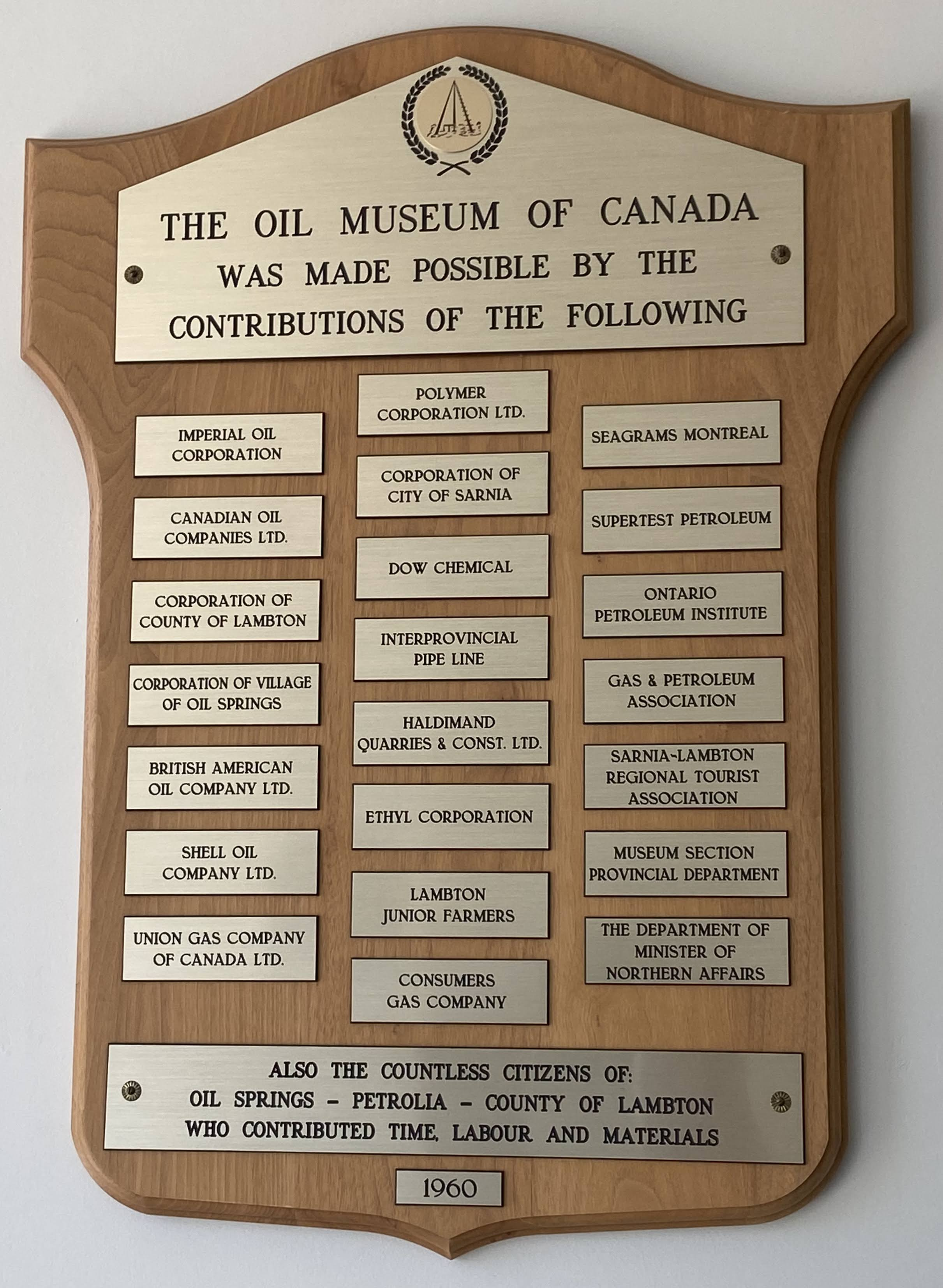 A plaque of the donors who contributed to the Oil Museum of Canada's creation.